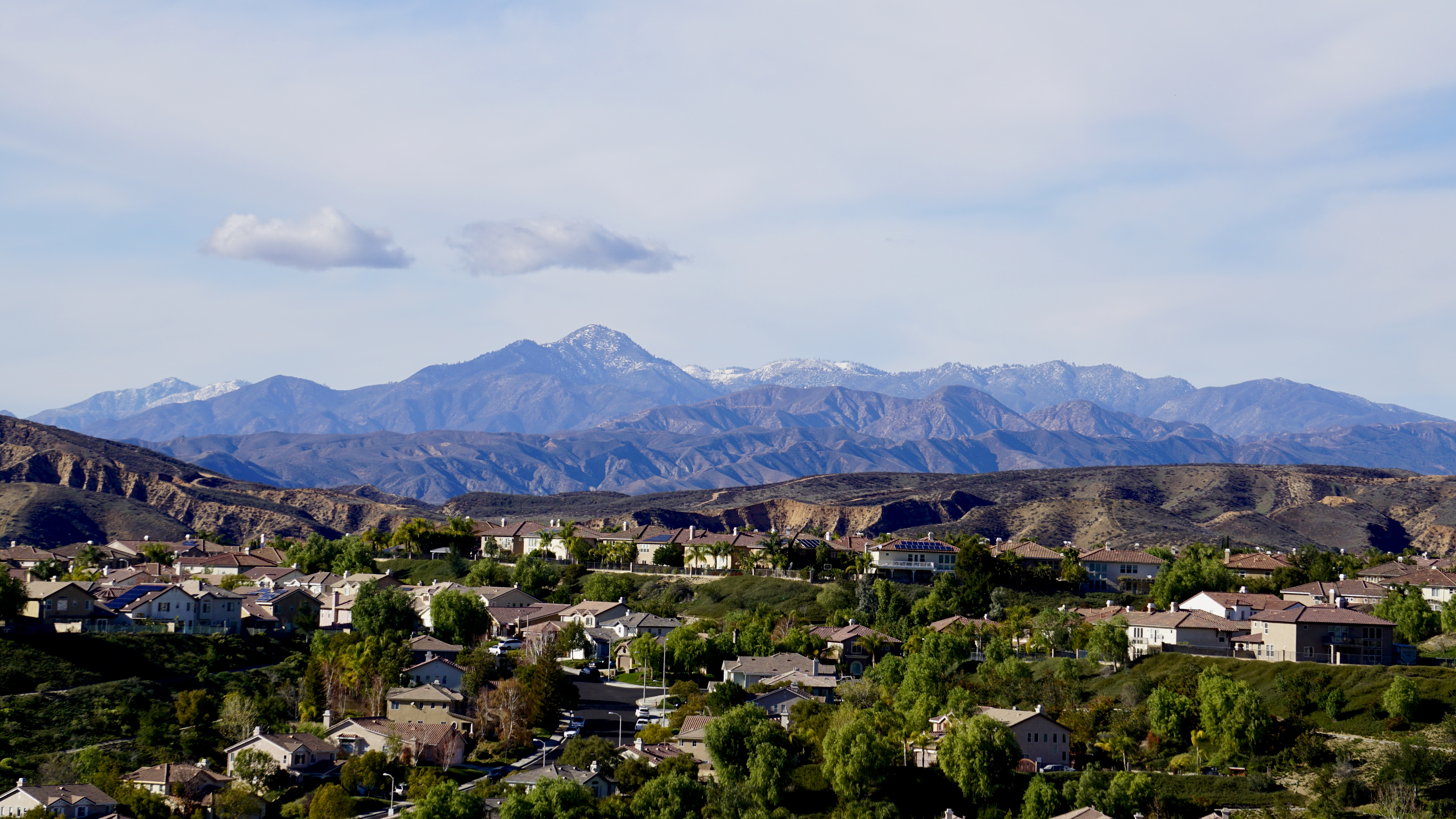 View from Santa Clarita of the Topatopa Mountains. Cobblestone Mountain can be seen as the prominent peak at the center left of the image.